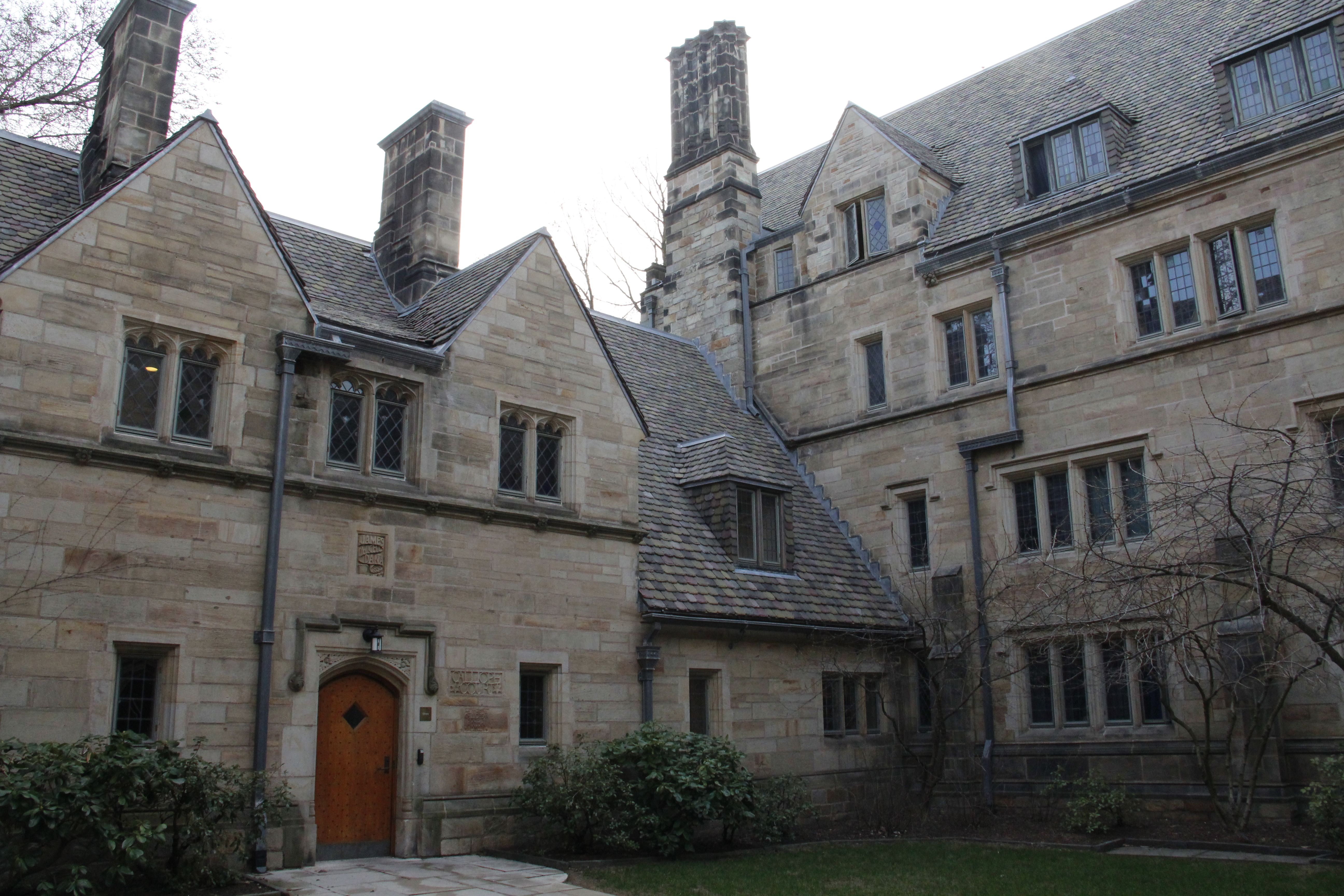 Calliope Court of the Memorial Quadrangle (part of Branford College), Yale University, New Haven, CT